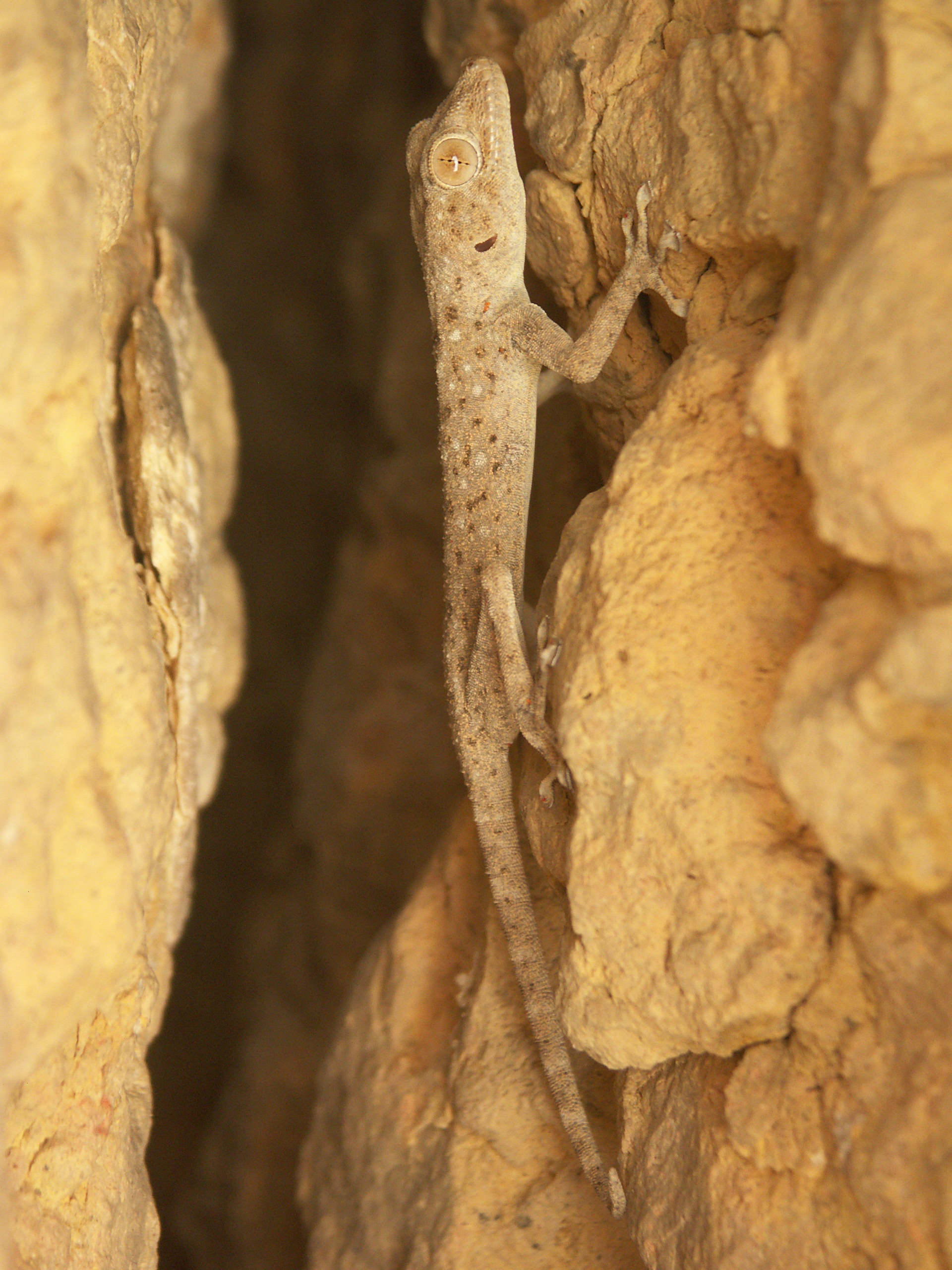 Ptyodactylus hasselquistii guttatus hiding between the rocks in the Dana Biosphere Reserve, Jordan.